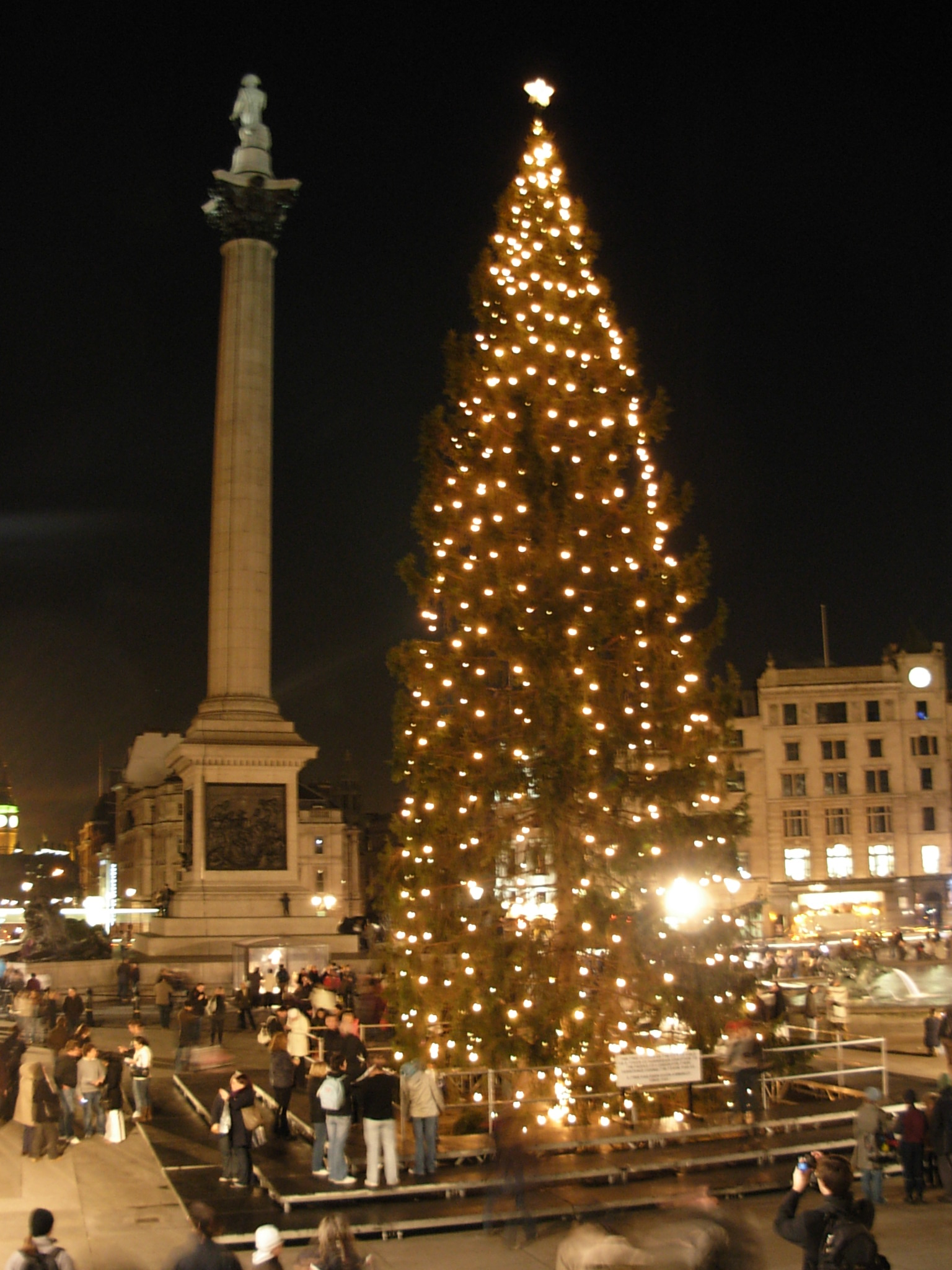 Trafalgar Square Christmas tree, 2008